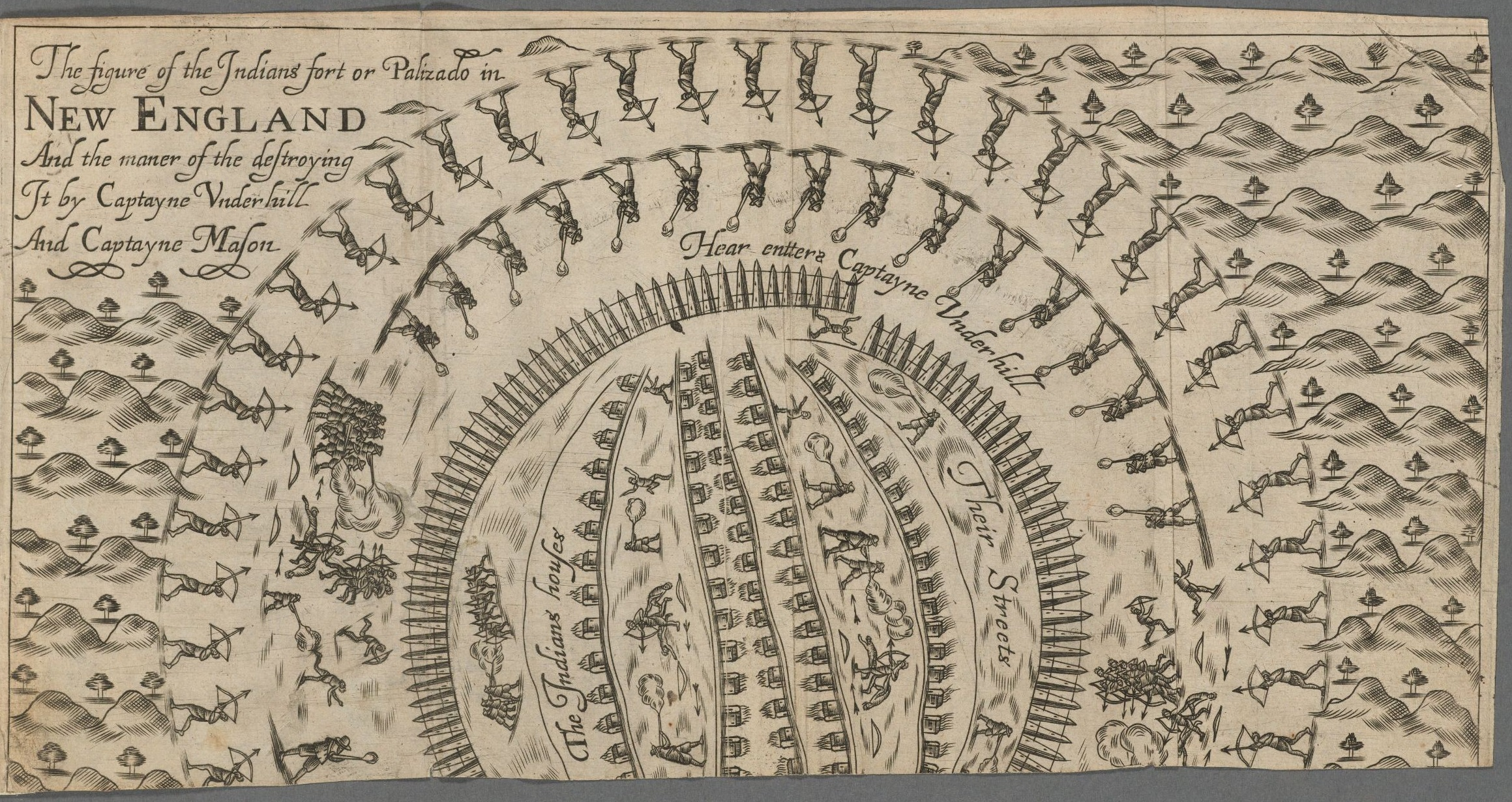 Illustration: "The figure of the Indian's fort or Palizado", from Nevves from America; or, A new and experimentall discoverie of New England, London: 1638, by John Underhil (d. 1672). STC 24518, Houghton Library, Harvard University